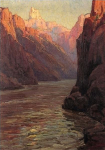 impressionist painting of the Grand Canyon by Benjamin Chambers Brown